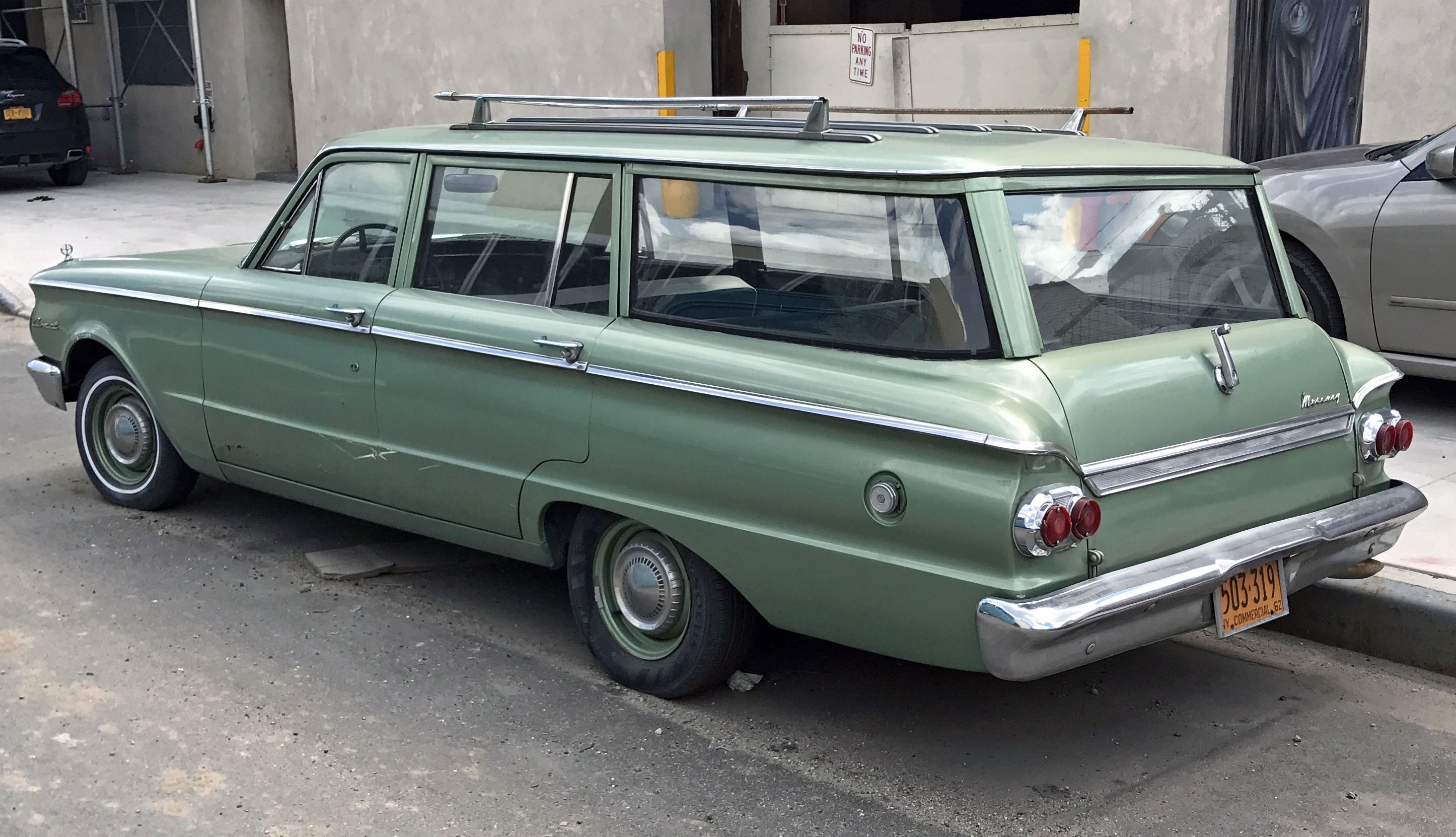 A 1962 Mercury Comet station wagon in Richmond Hills, Queens, NYC.